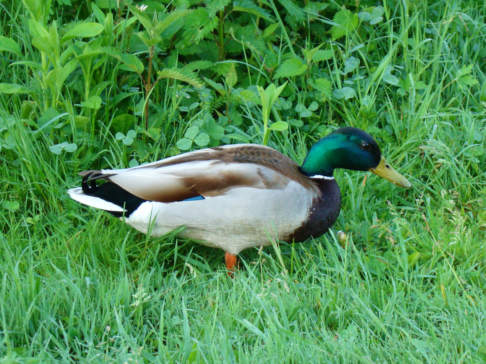 Photo of the Mallard male (Anas platyrhynchos) in in Vingis park, Vilnius, Lithuania.